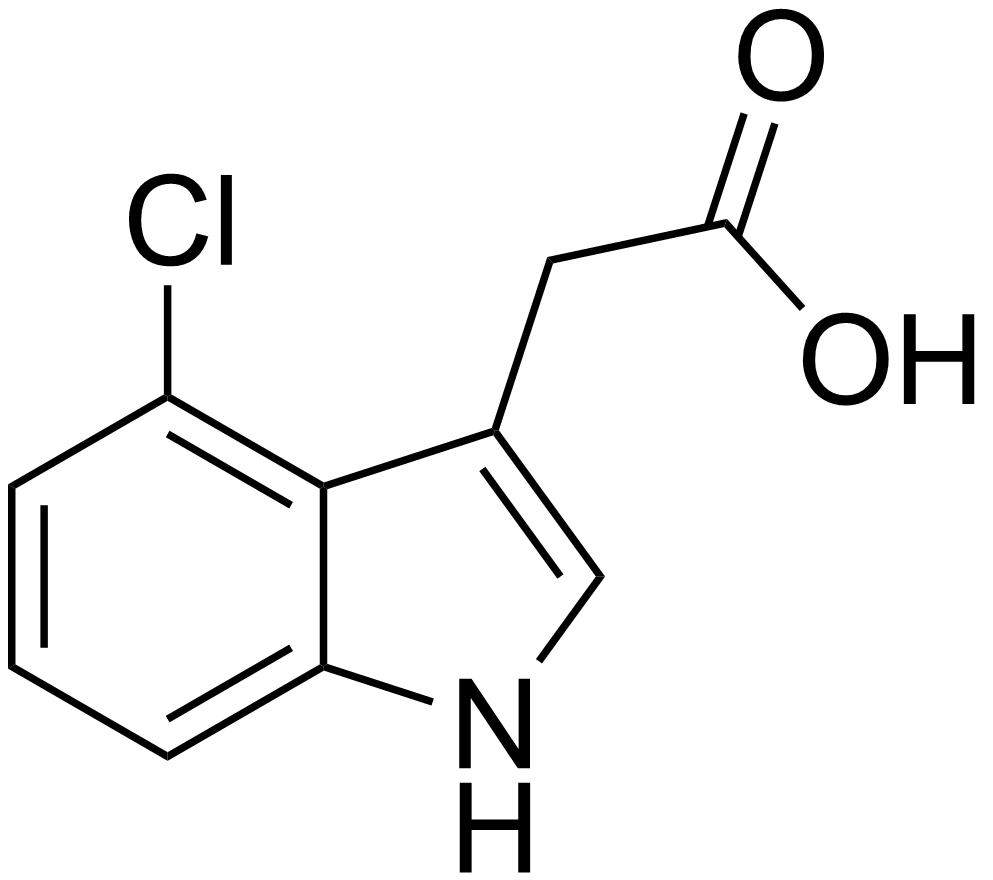 Chemical structure of Chloroindoleacetic acid (4-chloroindole-3-acetic_acid)